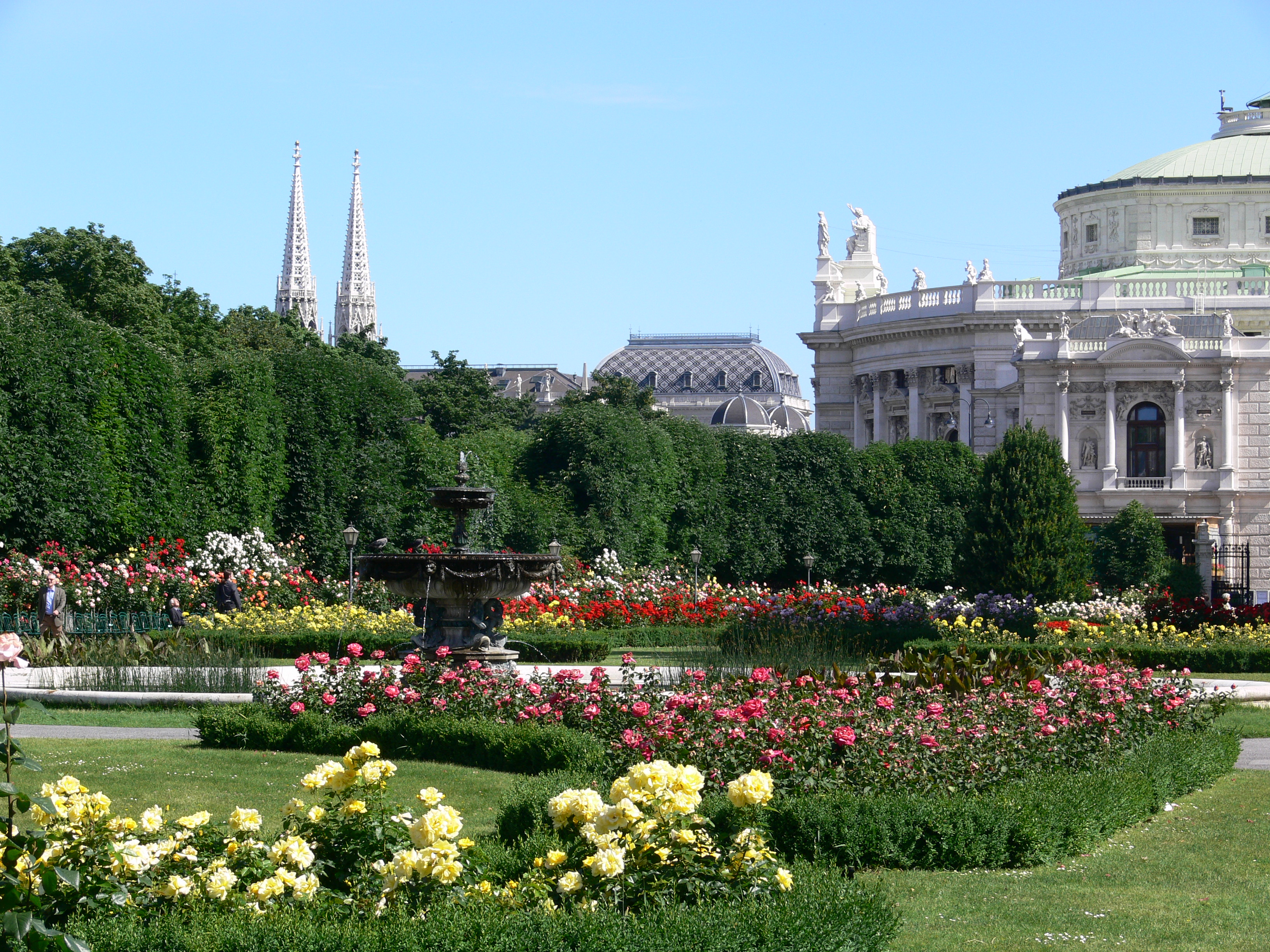 Austria, Vienna, Burgtheater